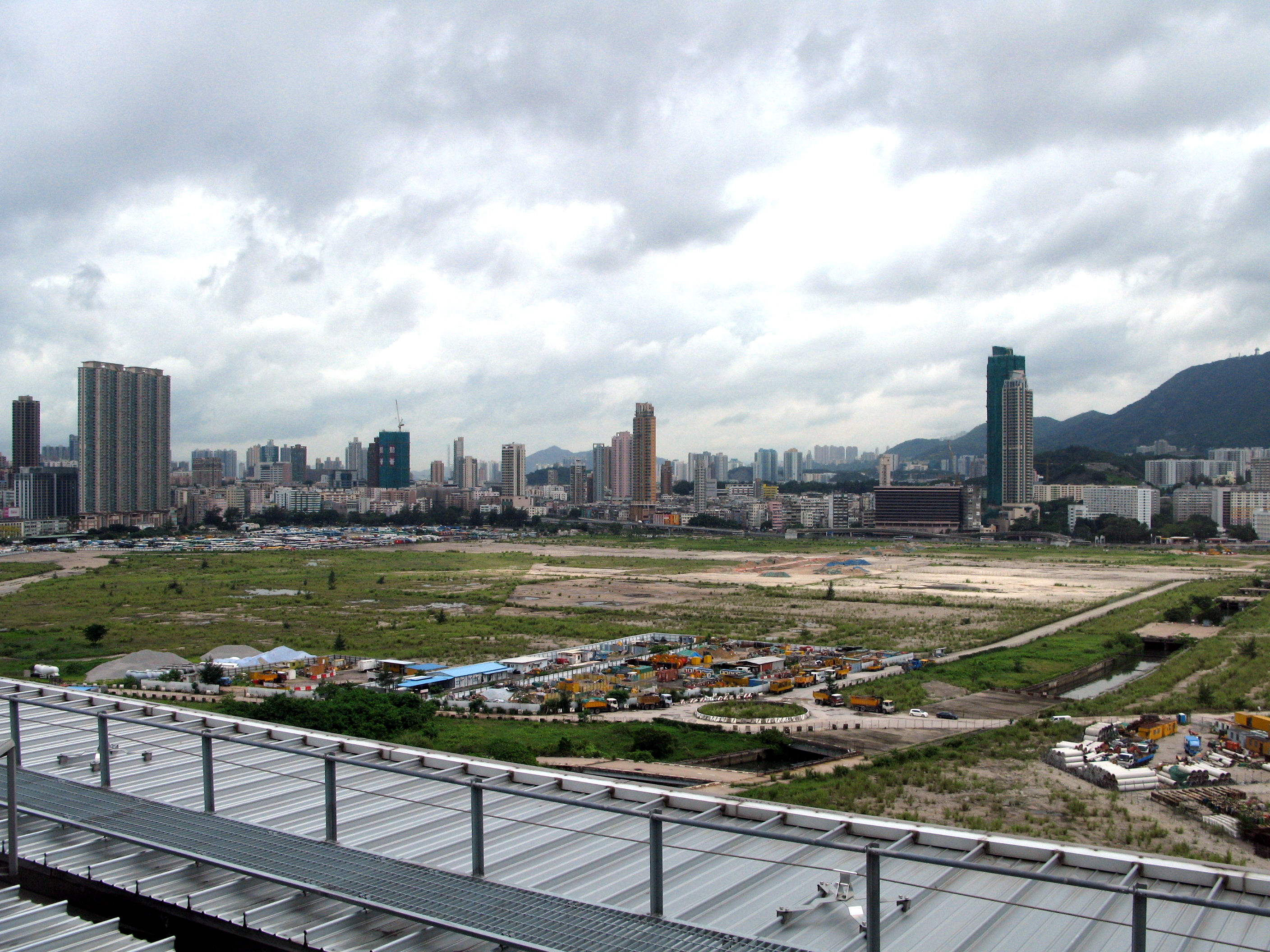 Old Kai Tak Airport Site 啟德機場舊址